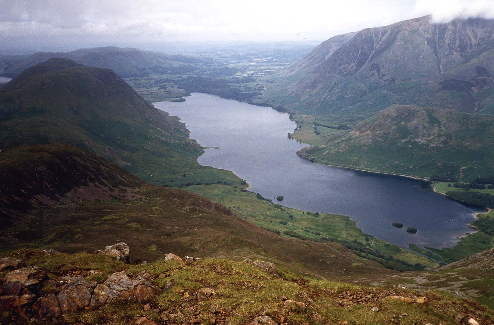 Personal picture taken by Mick Knapton